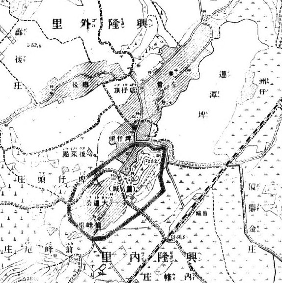 Saei (Taiwan houzu